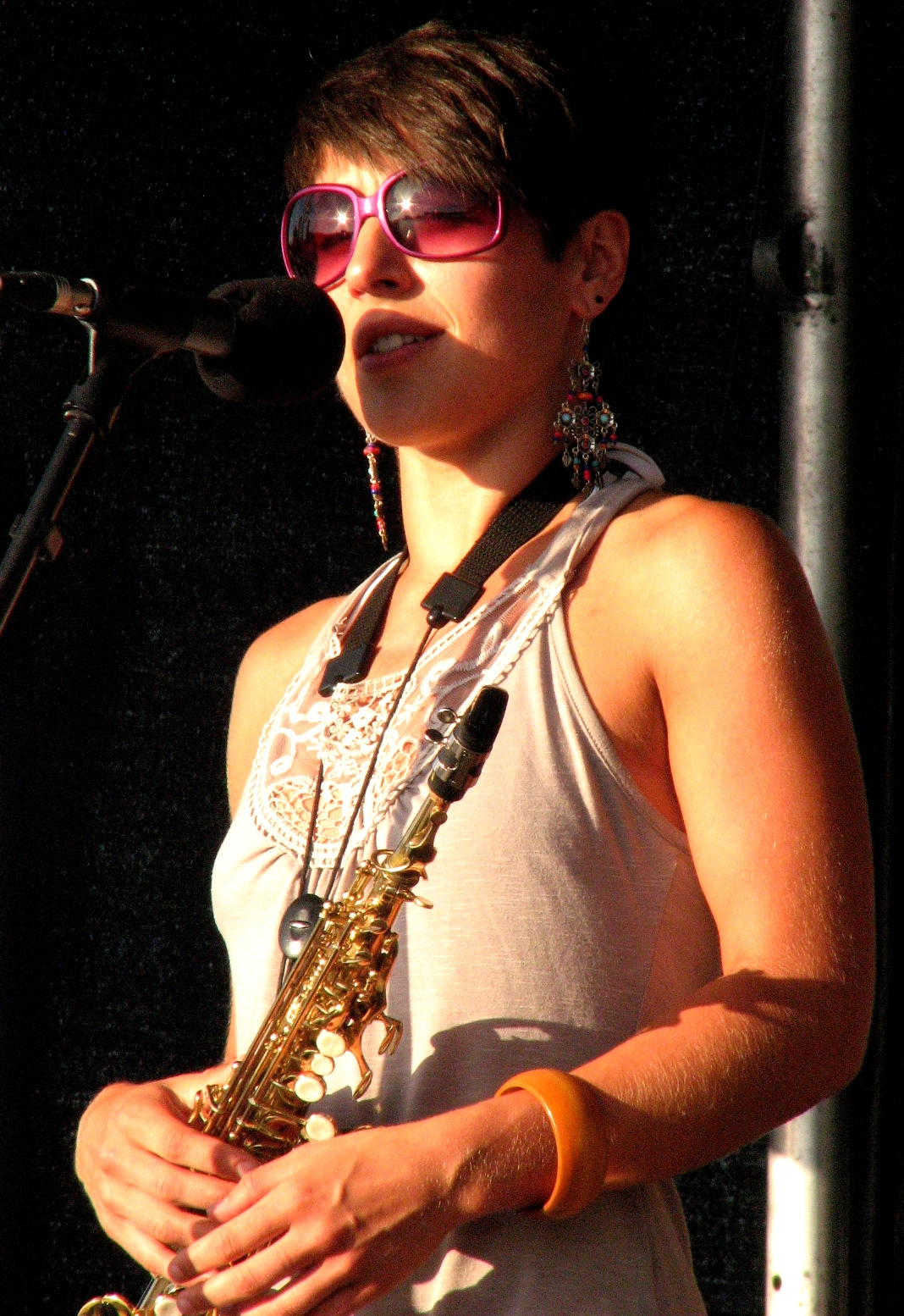 Sandra Sillamaa performing in Tallinn's Maritime Days